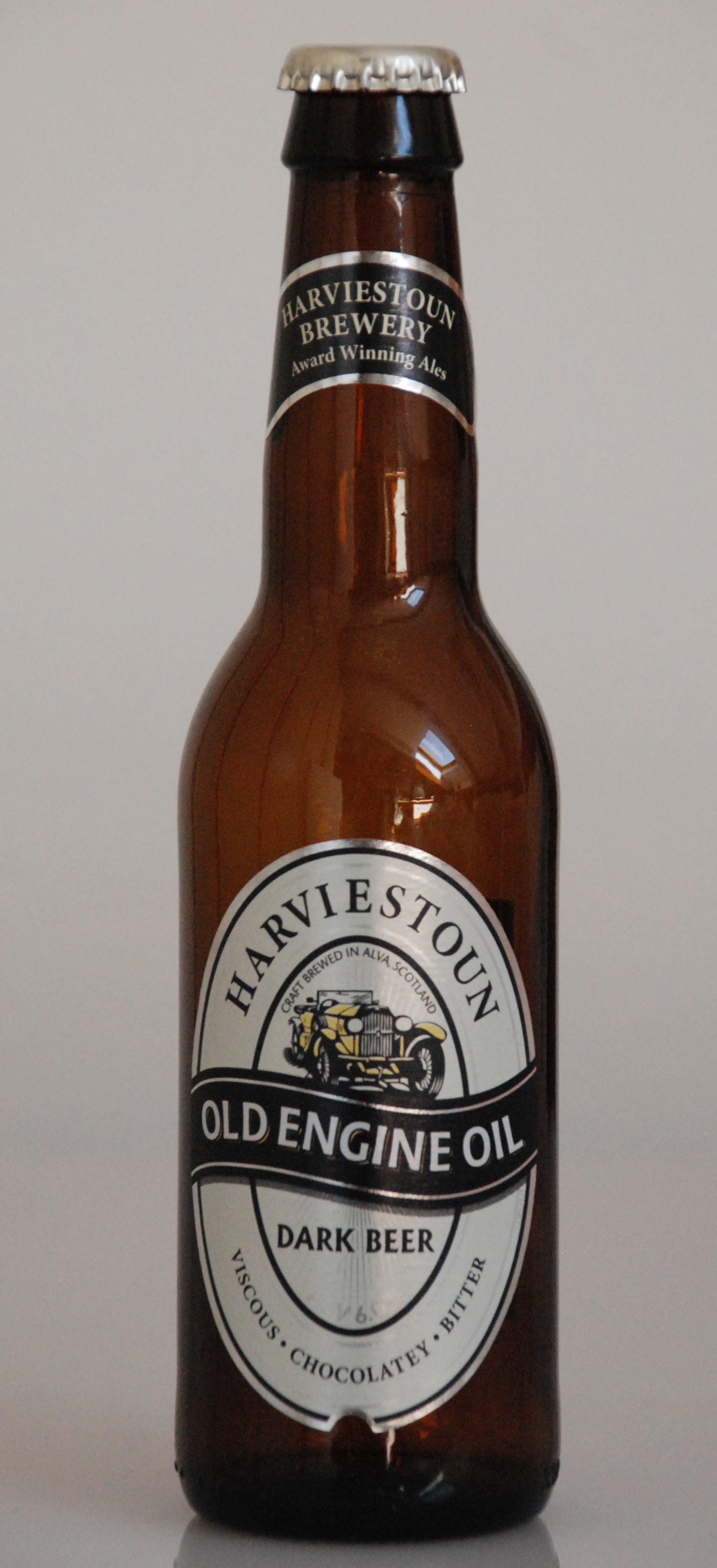 Empty 33cl bottle of Old Engine Oil beer.